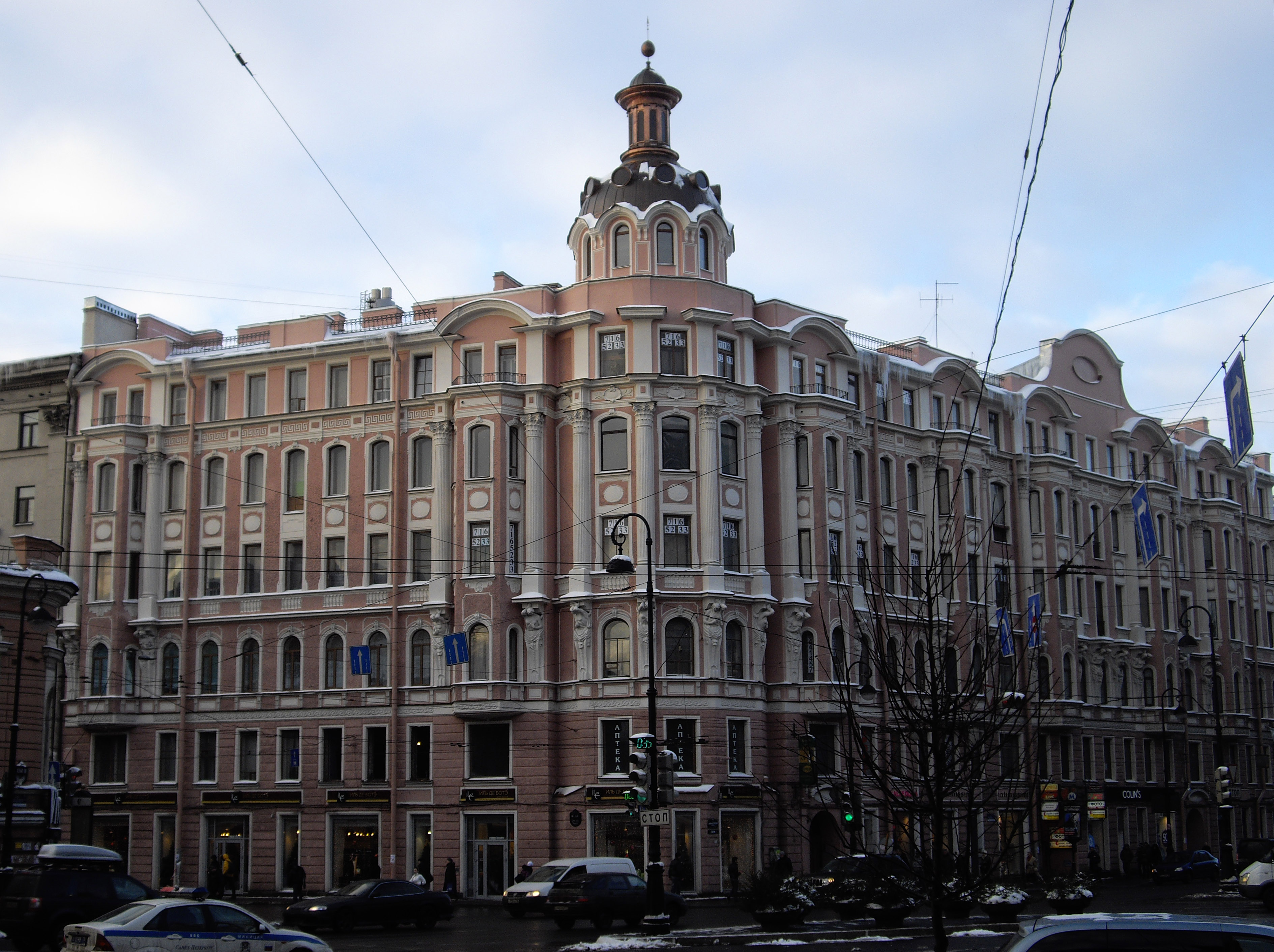 A corner of Bolshoy (96) & Kamennoostrovsky (38) Avenues (Sain-Petersburg, Russia).